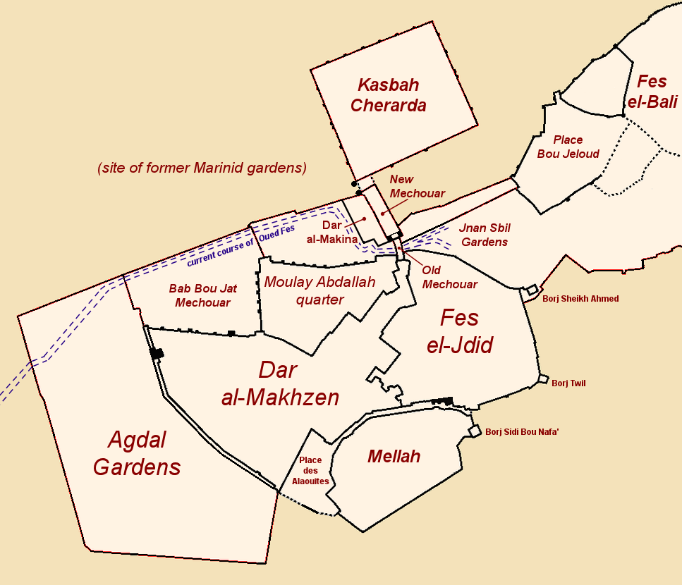 Plan of Fes el-Jdid, showing its major divisions, including the Dar al-Makhzen. Note: This is a revised/modified version of "Fes el-Jdid plan.png". I've uploaded it separately and labelled it "version 2" as it's possible some may find it aesthetically worse than the other version. The main differences are: 1) The approximate course of the river has been added on the map, as this something mentioned a few times in the article for which this was intended. (I drew this based on maps in reliable sources and also by checking it visually on Google satellite imagery.) 2) Some details have been added to reflect some of the fortified gate structures of Bab Dekkakin, Bab al-Amer, Bab Semmarine, and Bab Agdal. 3) Minor but significant changes to the outline of the walls on the right side of the Old Mechouar, in order to visually reflect the roads in and out of it as well as to make it easier to draw the course of the river emerging on this side. Note, however, that the more irregular outline of the walls in the previous version (which was the outline drawn by user Omar-Toons) is partly more accurate because there is in fact a wall that runs in that manner there. For the purposes of visually explaining Fes el-Jdid's layout, I felt that this was an ok compromise.